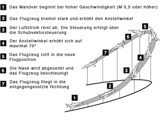 Diagram of the Herbst-maneuver (german)